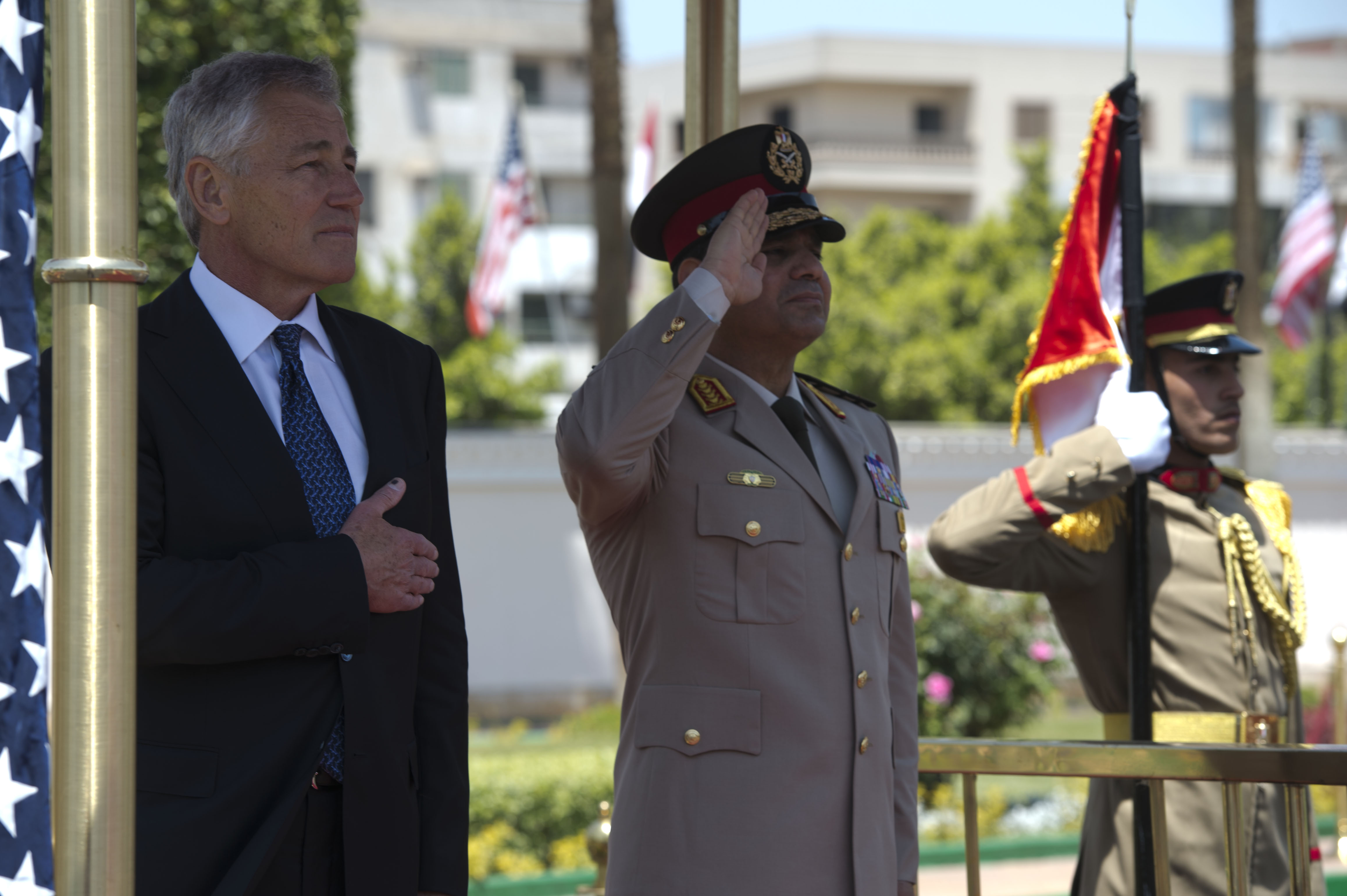 Secretary of Defense Chuck Hagel participates in an arrival honors ceremony with Egyptian Minister of Defense, Abdel Fatah Saeed Al Sisy, in Cairo, Egypt, April 24, 2013. Egypt is Hagel's fourth stop on a six day trip to the Middle East to meet with defense counterparts.(Photo by Erin A. Kirk-Cuomo) (Released)